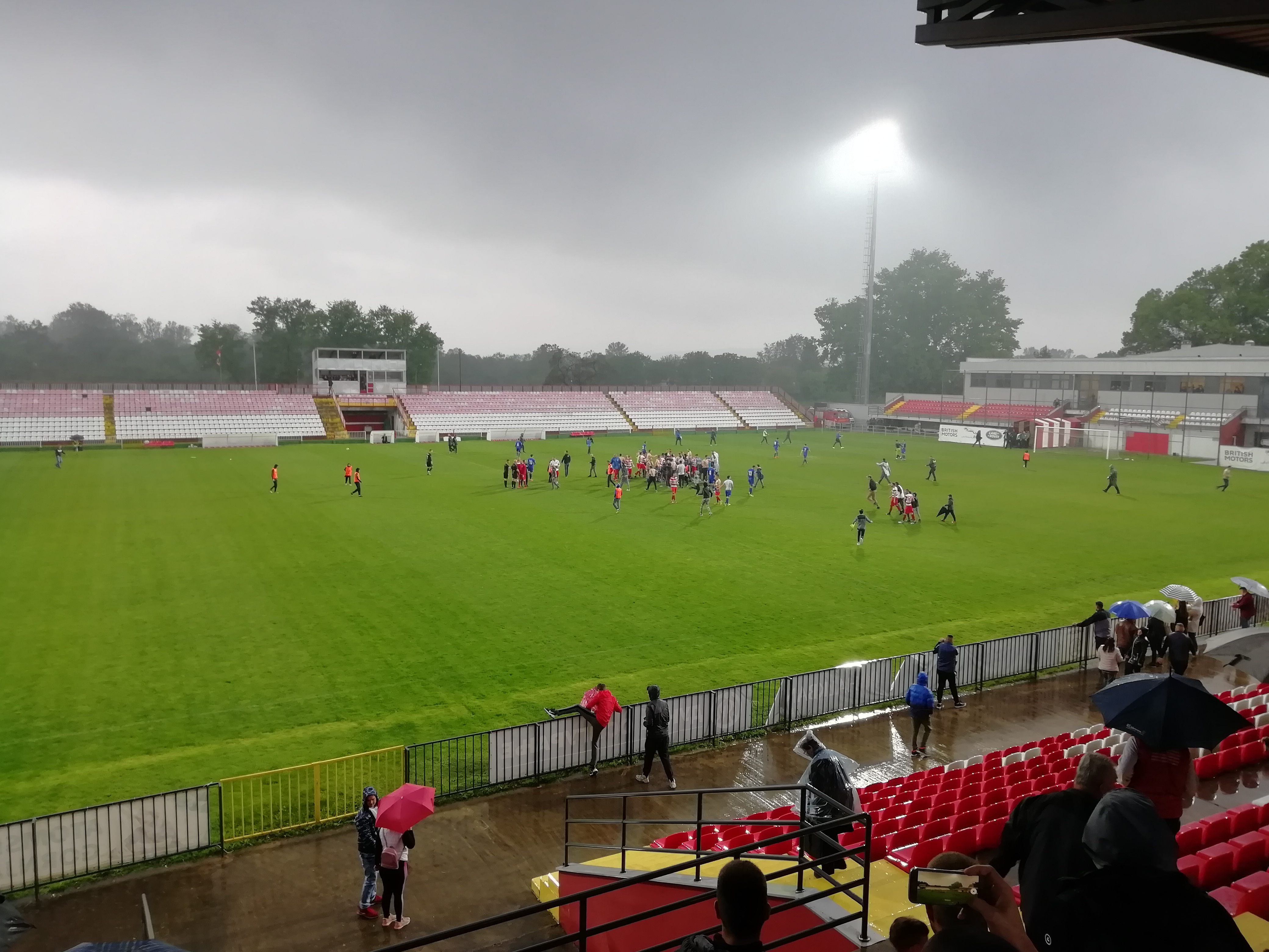 The celebration of FK Borac Čačak players and fans following the win and relegation survival in the last game of Serbian First League versus FK Novi Pazar (rainy weather), May 2019